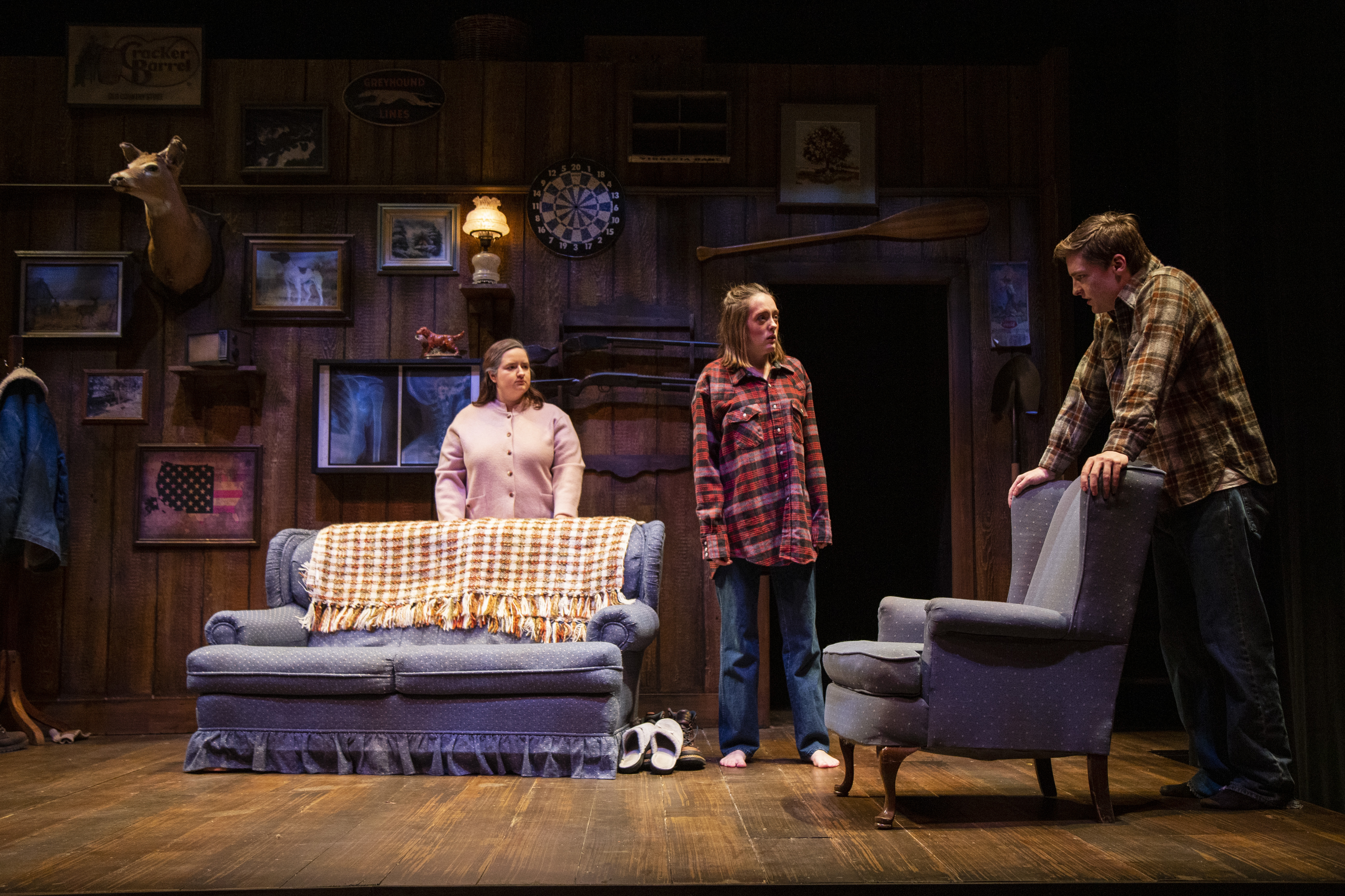 Photo by Katie